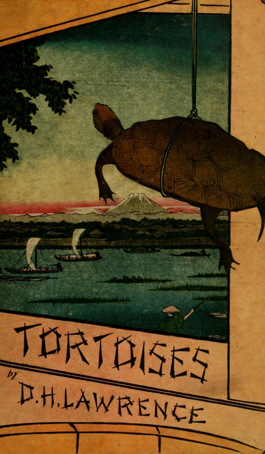 1st Edition Cover of Tortoises by D.H. Lawrence.